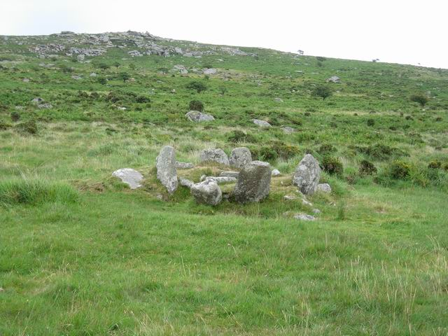 Old stone remains. I think this is the 'cairn and cist' marked on the map. btw a cist is: a small stone-built coffin-like box used to hold the bodies of the dead (notably during the Bronze Age in the British Isles and occasionally in Native American burials). The sides are usually built of single slabs.